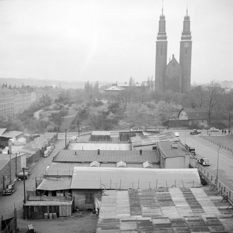 Kvarteret Plankan in 1951